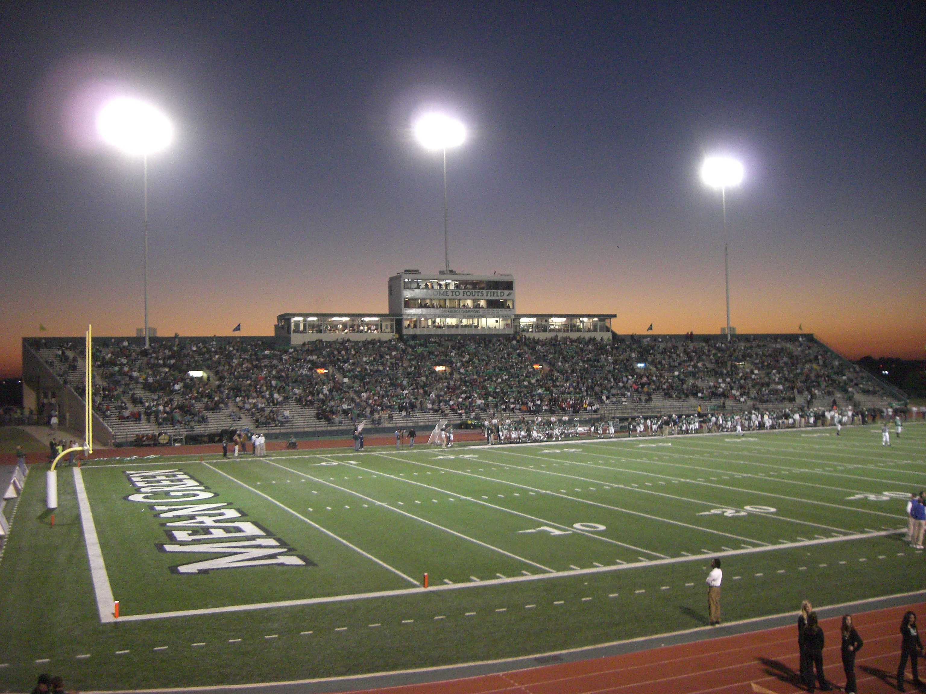 University of North Texas' Fouts Field during homecoming weekend